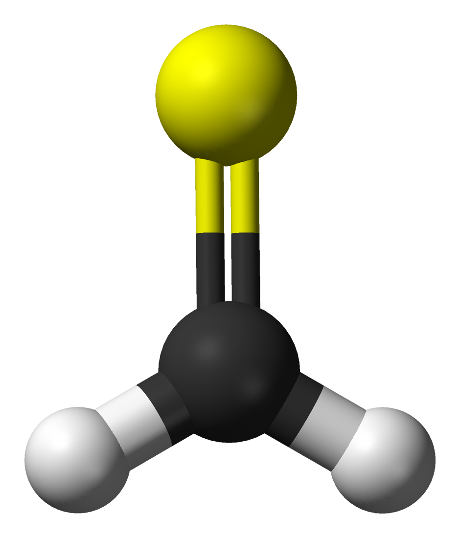 Ball-and-stick model of the thioformaldehyde molecule, H2CS